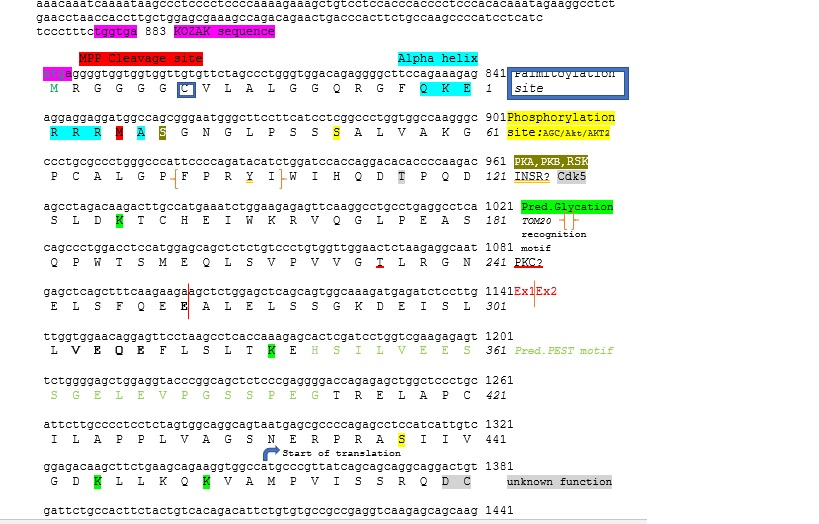 Conceptual annotation